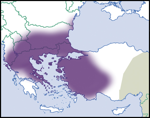 Monacha claustralis (Rossmässler, 1834). Distribution in Europe, scientific state of knowledge of 2012. Source description in English. Light colour indicated rare occurrences or regions where the species could eventually be expected to occur. Dark colour indicated relatively reliable occurrences, as well as regions where the species was expected to occur, and where the species was not known to be extremely rare. Dark colour indications were not necessarily based on published records. Species summary in AnimalBase